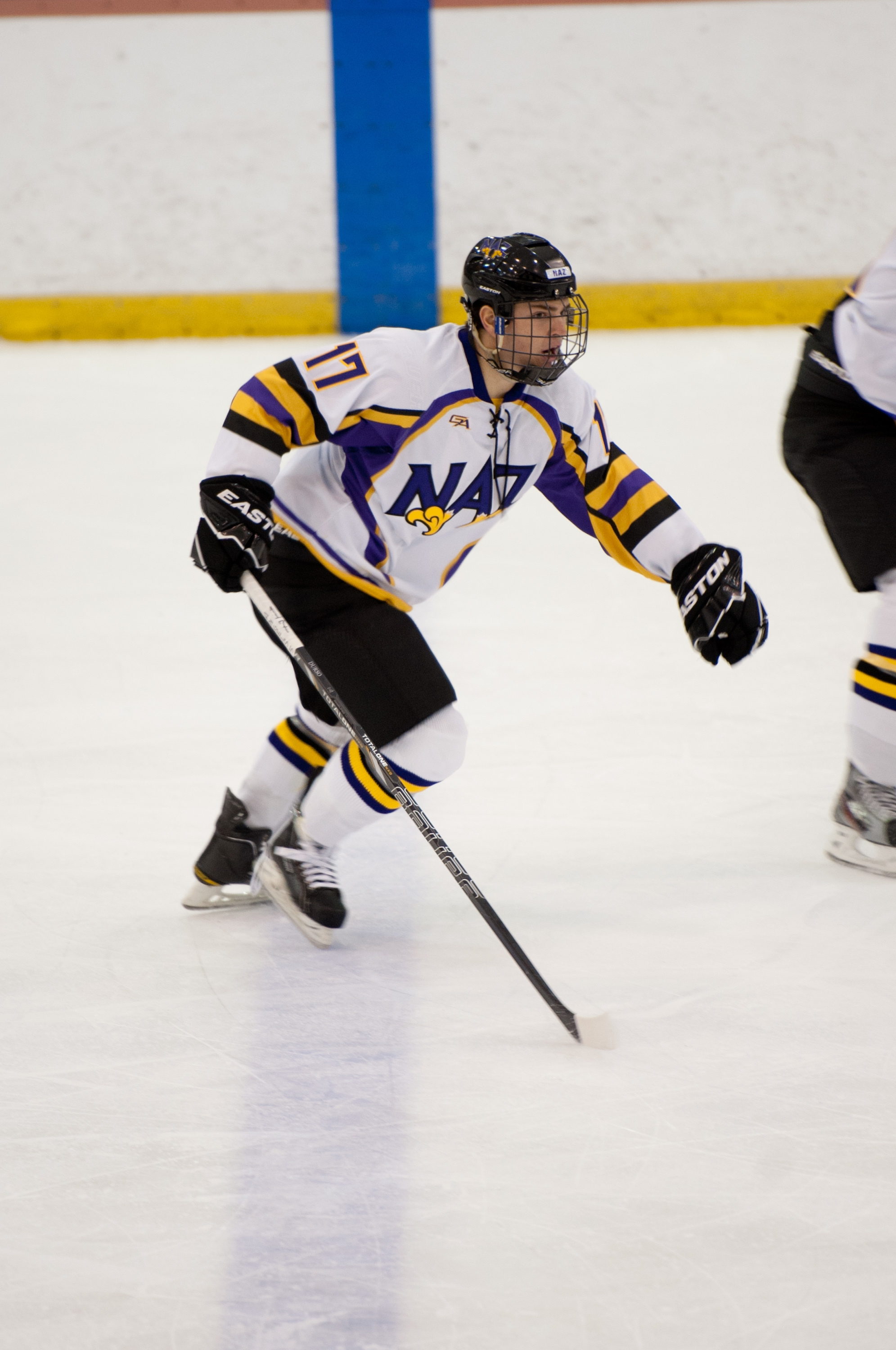 The first game for Nazareth College hockey